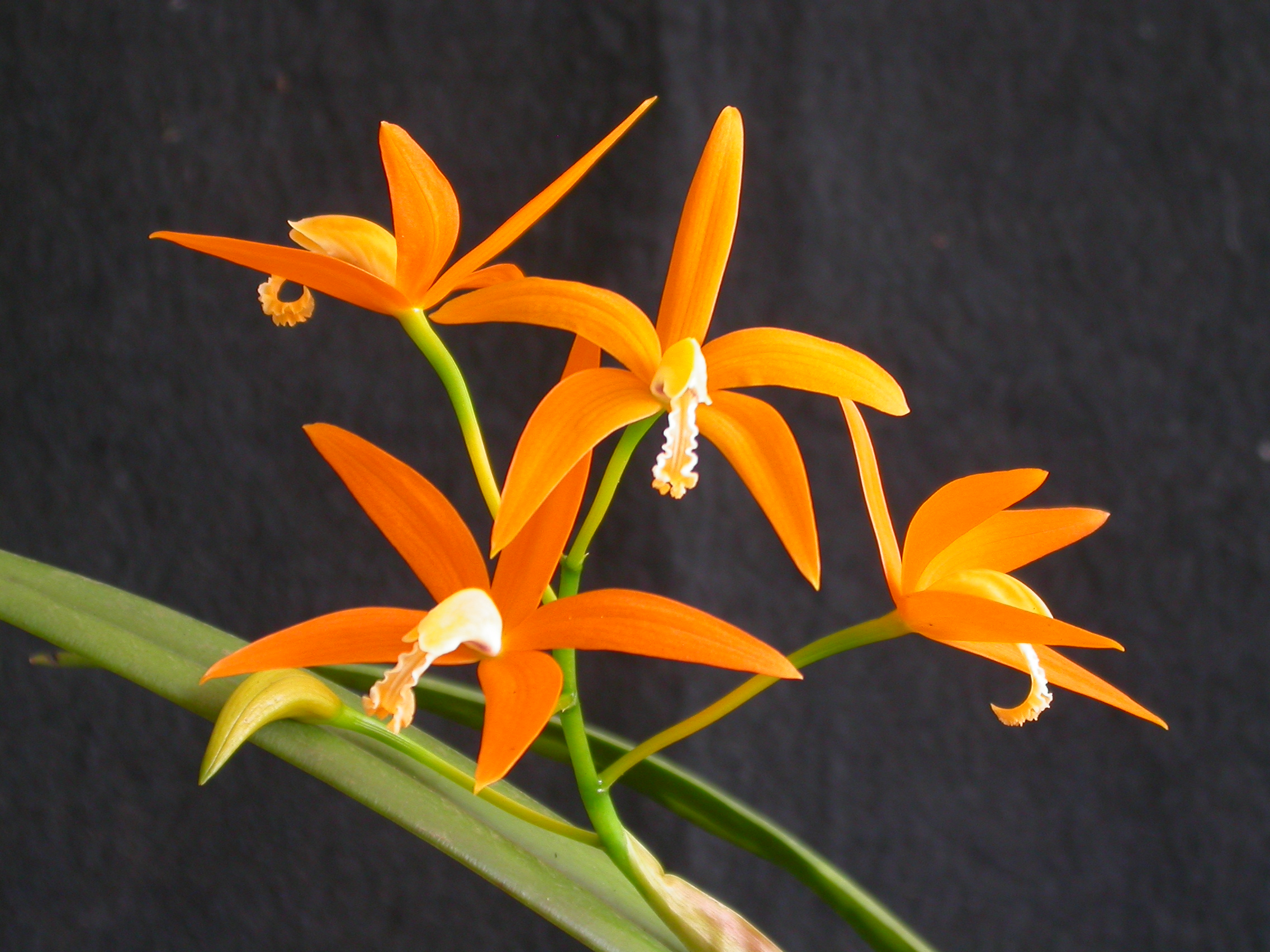 Dungsia harpophylla